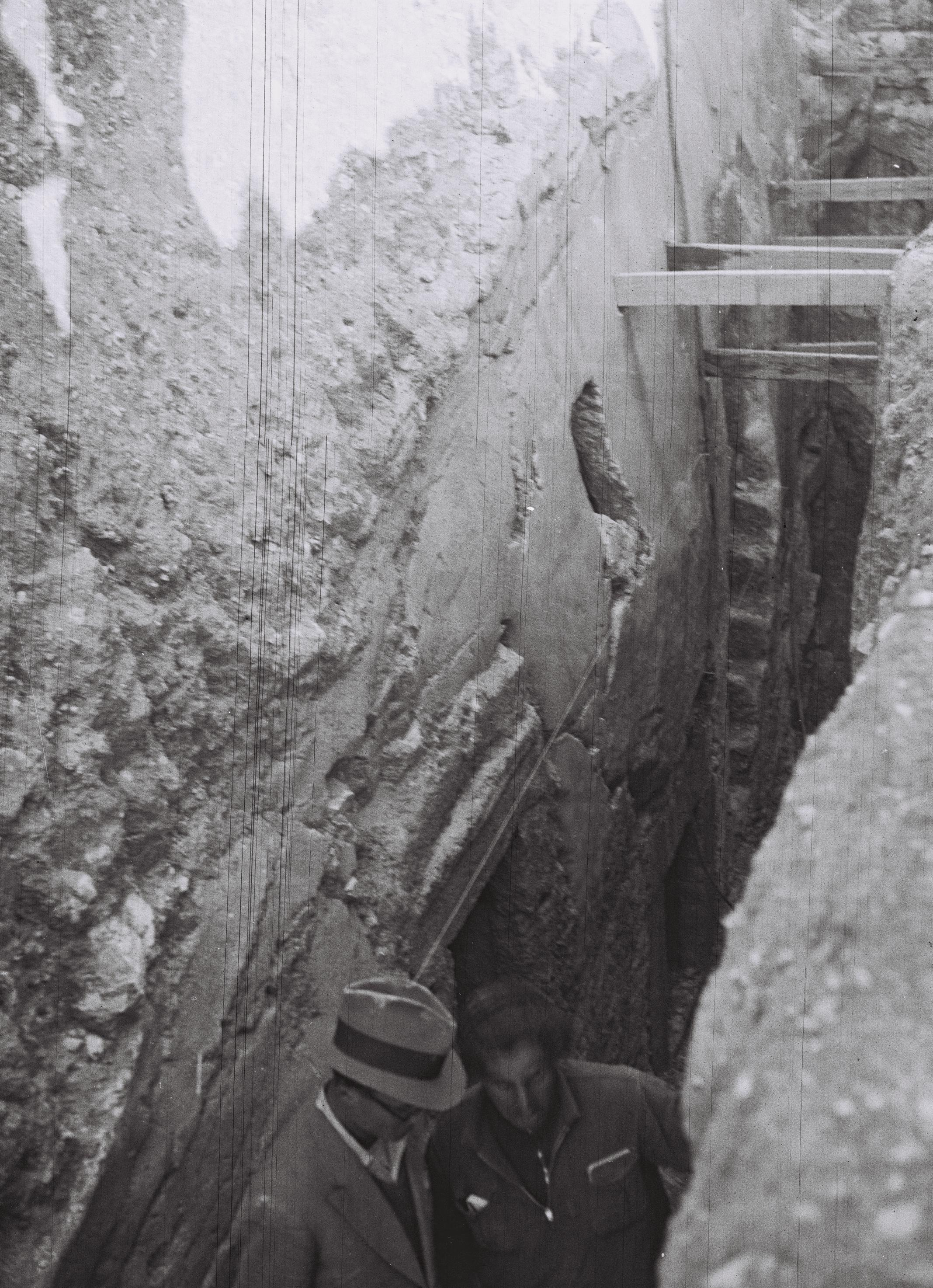 The Archeologist Prof. Pesach Bar Adon at Beit Shearim. SHEARIM EXCAVATIONS NEAR TIVON